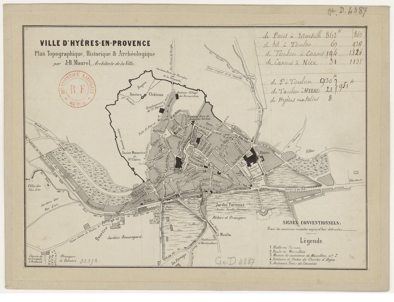 carte hyères